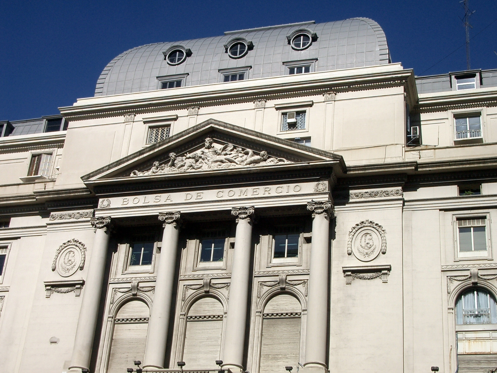 Buenos Aires Stock Exchange